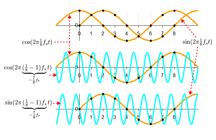 This figure depicts two complex sinusoids, colored gold and cyan, that fit the same sets of real and imaginary sample points. They are thus aliases of each other when sampled at the rate (fs) indicated by the grid lines. The gold-colored function depicts a positive frequency, because its real part (the cos function) leads its imaginary part by 1/4 of one cycle. The cyan function depicts a negative frequency, because its real part lags the imaginary part.